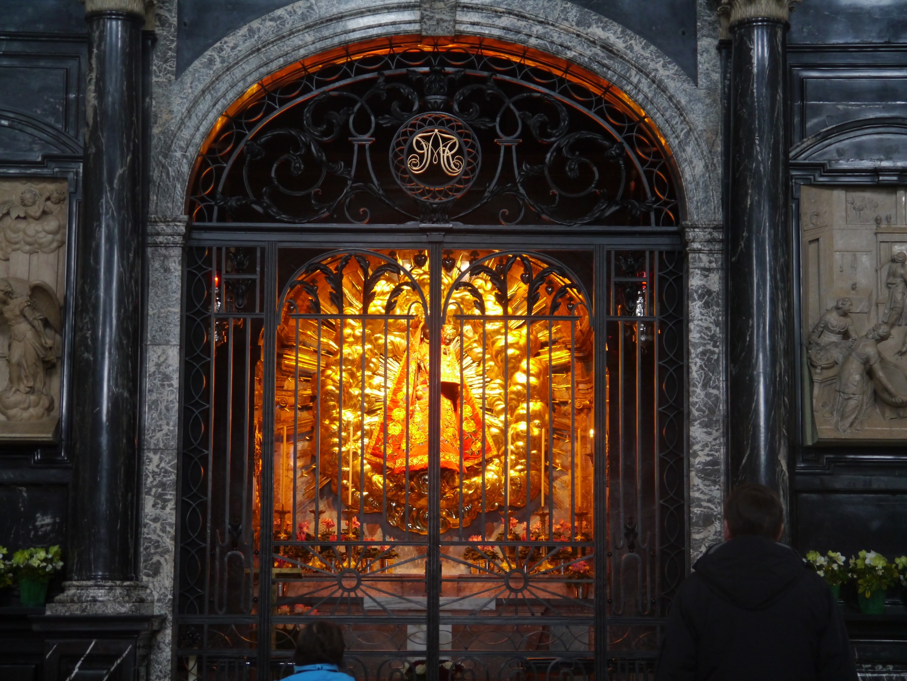 House of the Black Madonna of the Abbatial Cathedral St. Mauritius, Einsiedeln, Canton of Schwyz, Central Switzerland